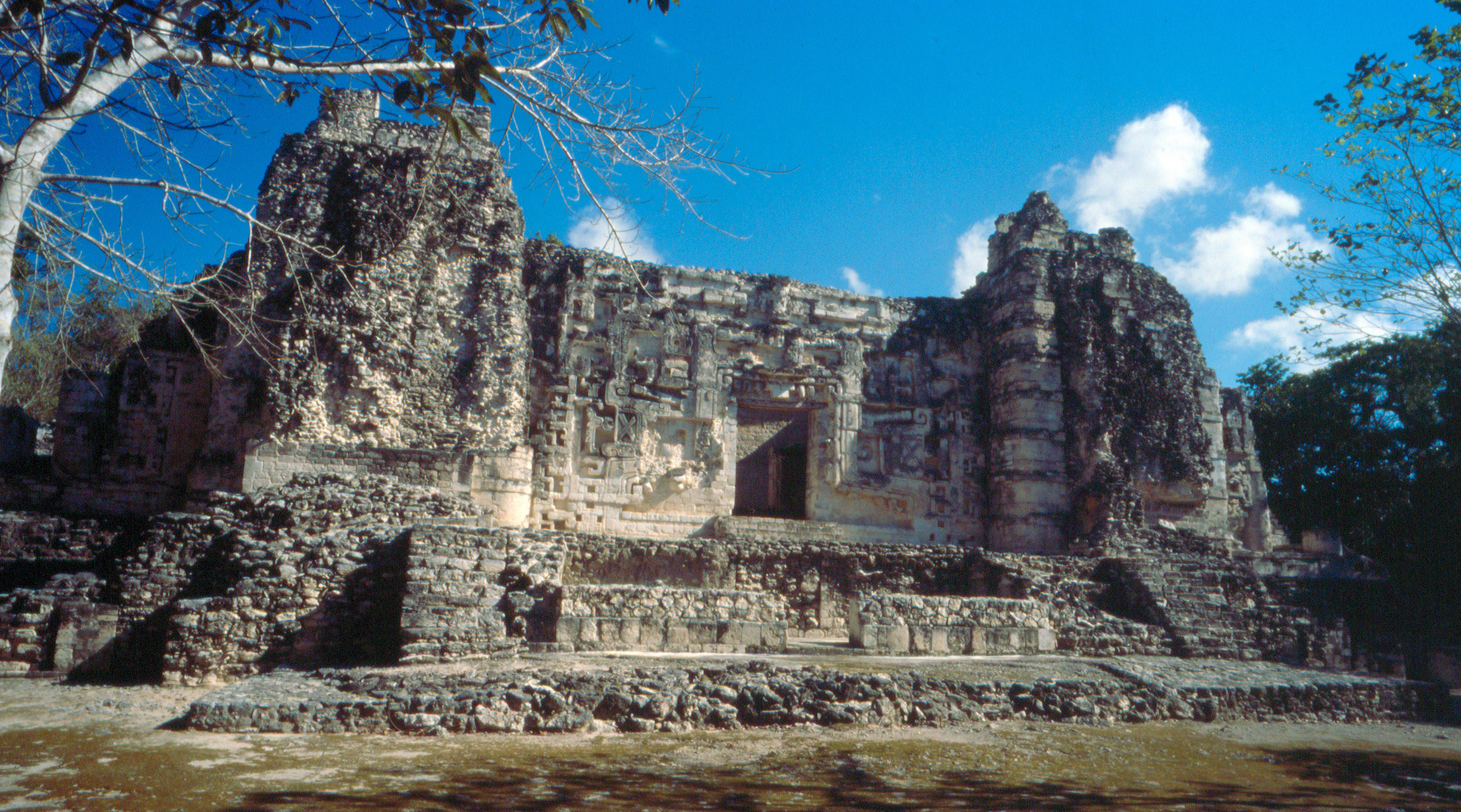 Hormiguero, Campeche, Mexico: South side of building II.